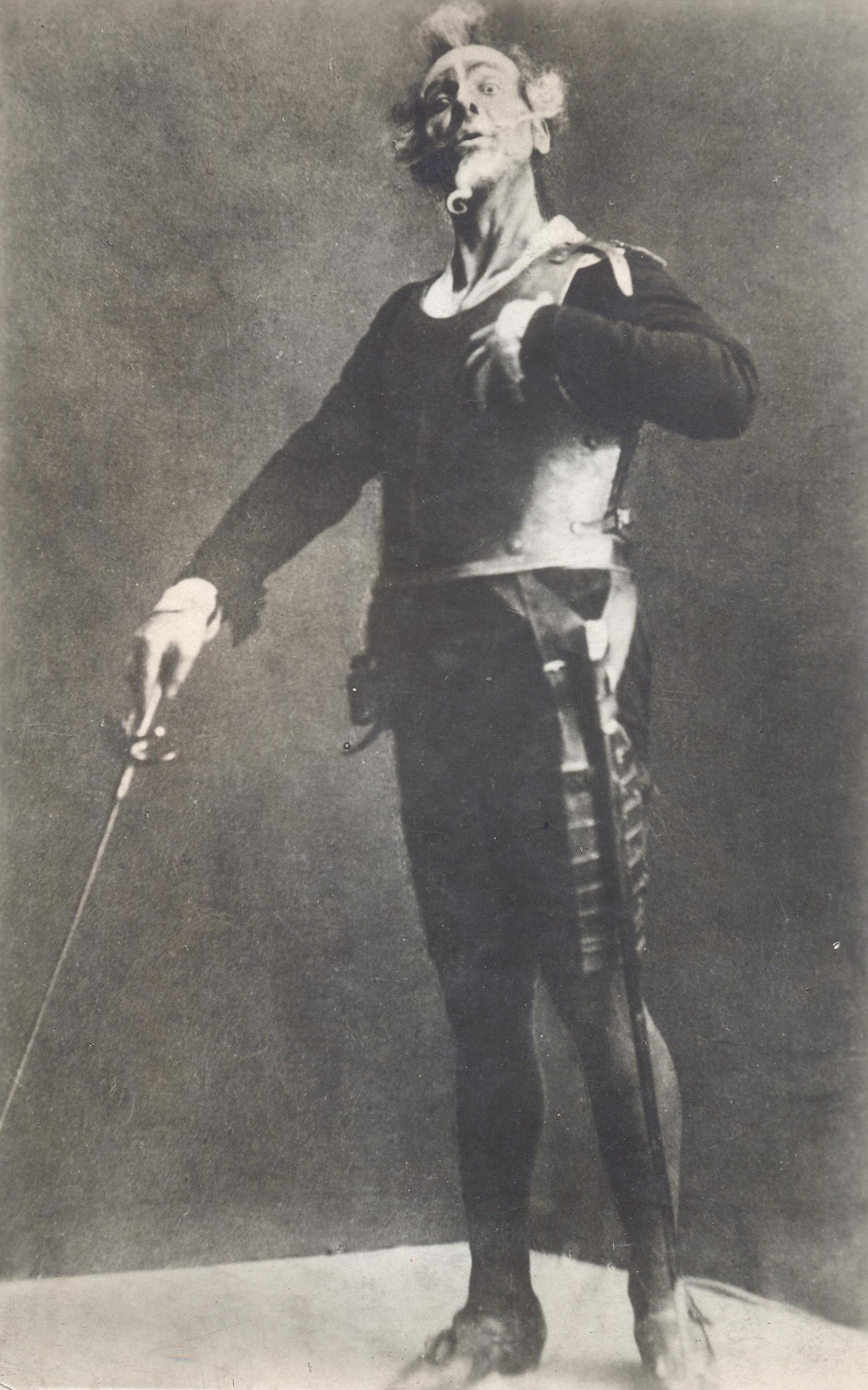 Feodor Chaliapin, Don Quixote.